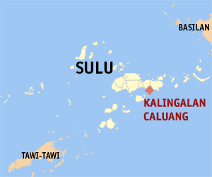 Map of the Sulu showing the location of Caluang